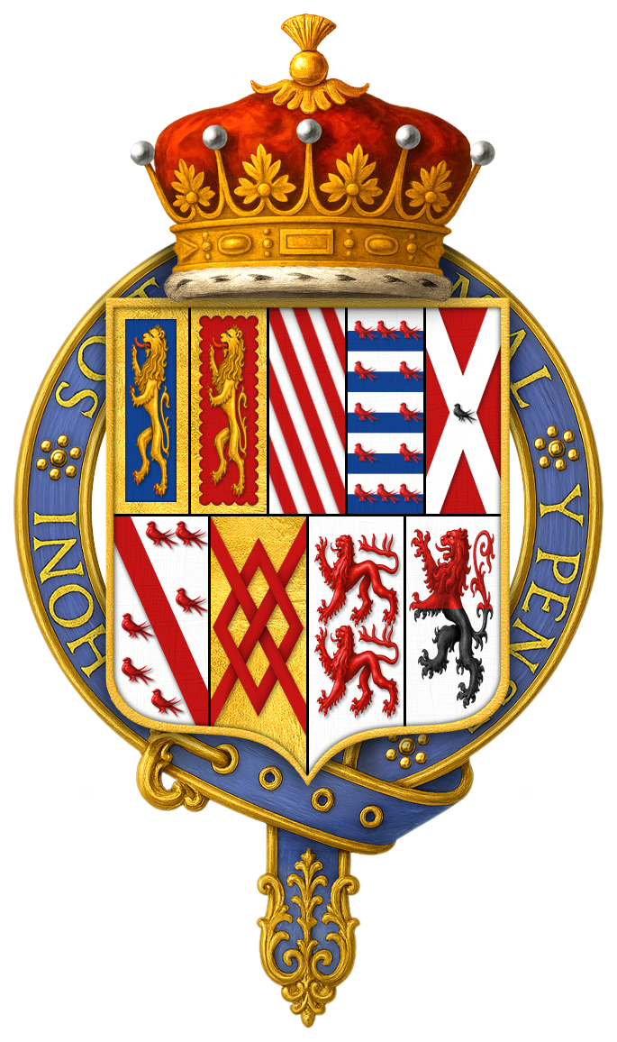 Coat of arms of Sir Francis Talbot, 5th Earl of Shrewsbury, KG See Shrewsbury's stall plate within St. George's Chapel. The plate is currently viewable online at the Royal Collection Trust website.